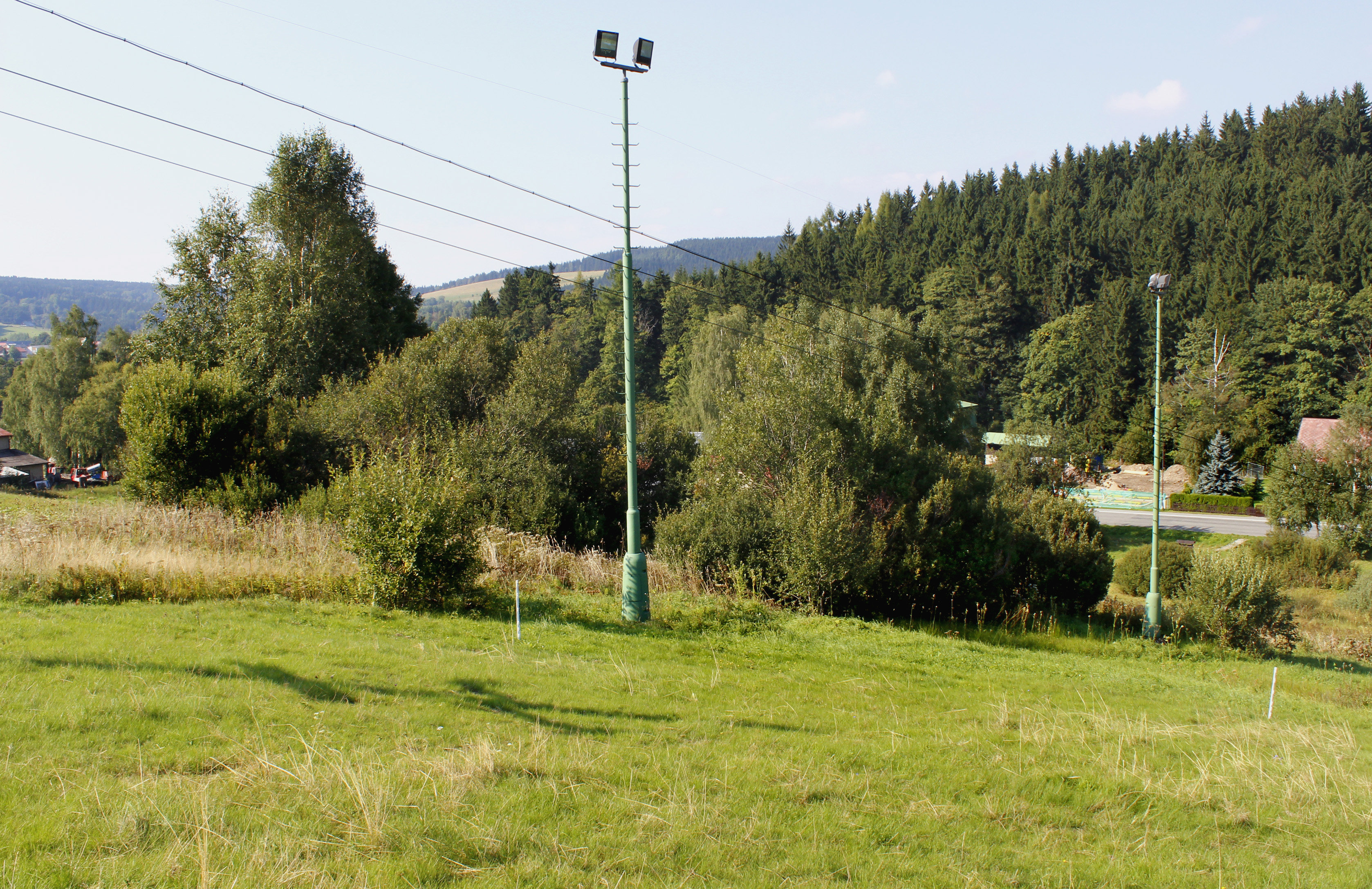 Upper part of Kačenčina zahrádka nature monument in Deštné v Orlických horách, Czech Republic